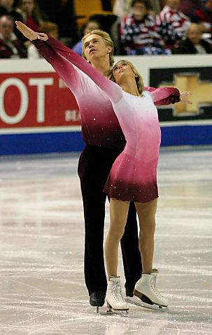 Elizabeth Putnam and Sean Wirtz compete their short program at the 2004 Four Continents Championships in Hamilton, Ontario. Photo taken by me, Vesperholly 08:34, 17 July 2006 (UTC)